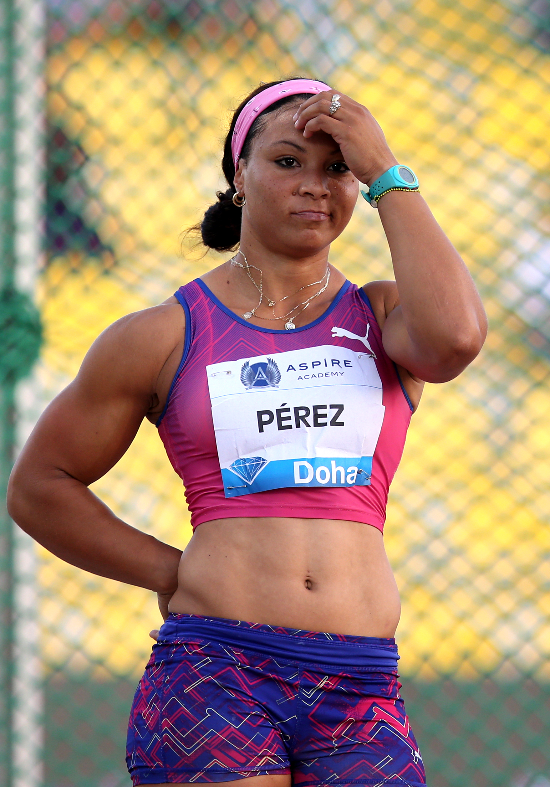 Cuba's Yaime Perez reacts after her women's discus throw event at the Doha Diamond League meet. Pic by Vinod Divakaran